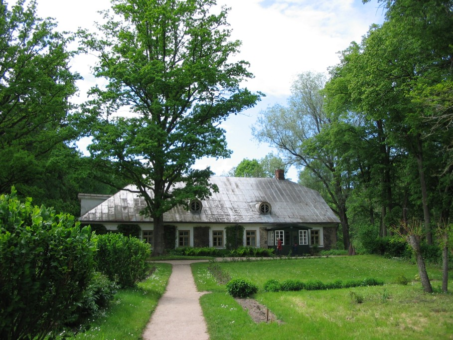 Anna Brigadere's Memorial Museum Sprīdīši in Tervete.